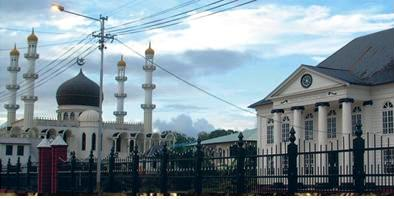 synagogue next to a mosque